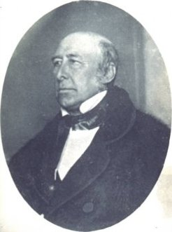 Portrait of Thomas Bock, by his son Alfred Bock.